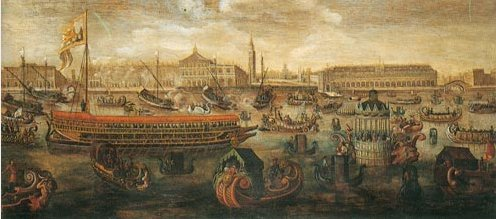 A depiction of the newly crowned Dogaressa Morosina Morosini-Grimani (1545 – 21 January 1614), the wife of the Doge of Venice Marino Grimani (1 July 1532 – 25 December 1605), being conveyed to the Doge's Palace on the Bucentaur on 4 May 1597.